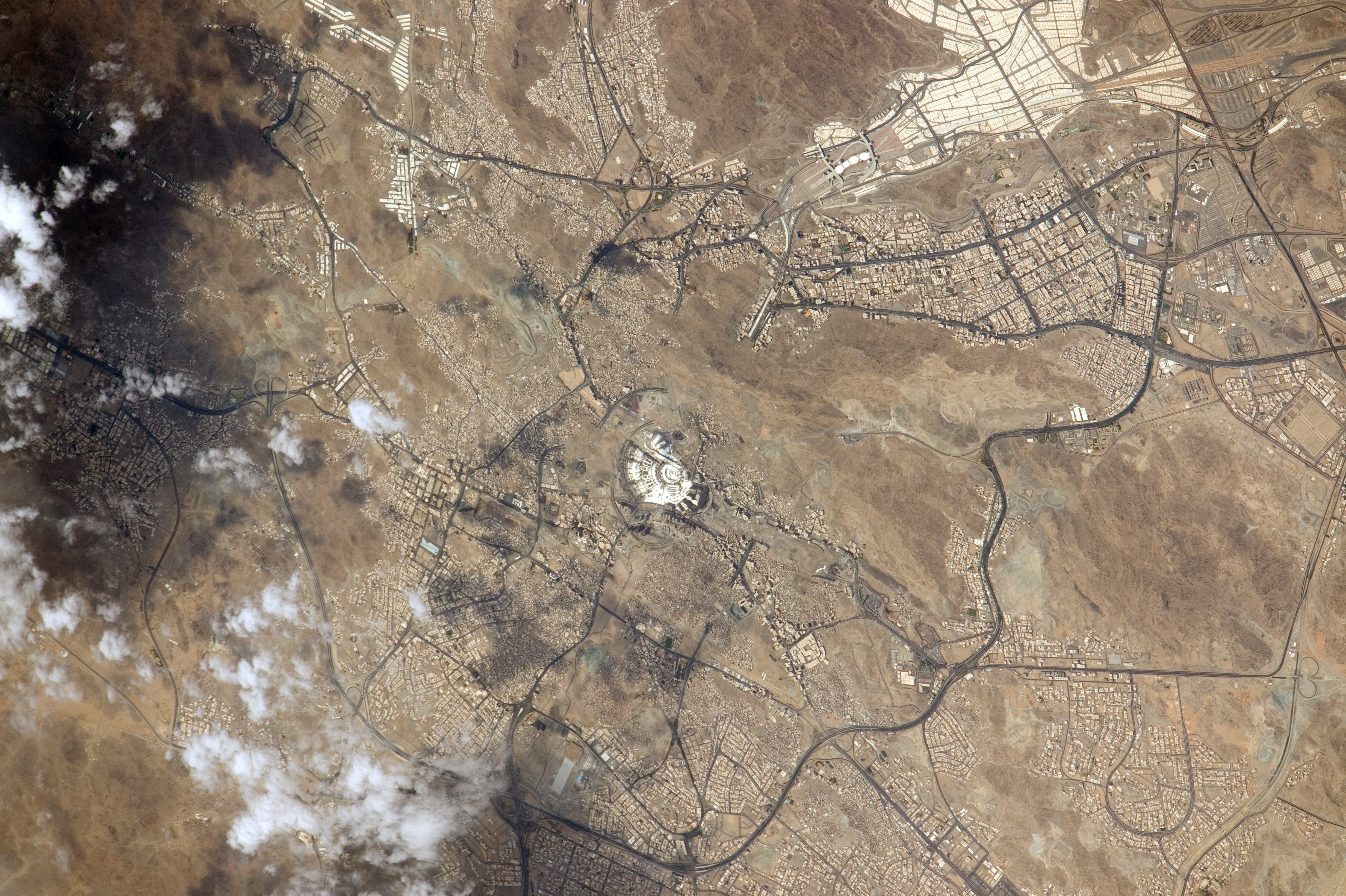 Astronaut Scott Kelly posted this photo taken from the International Space Station to Twitter on Sept. 23, 2015 with the caption, "#GoodMorning to the Holy City of #Mecca #Makkah! #YearInSpace". Editors note: The white structure in the image's center is the Great Mosque of Mecca. In it's middle you can see the Kaaba, downright therefrom the Makkah Royal Clock Tower Hotel.